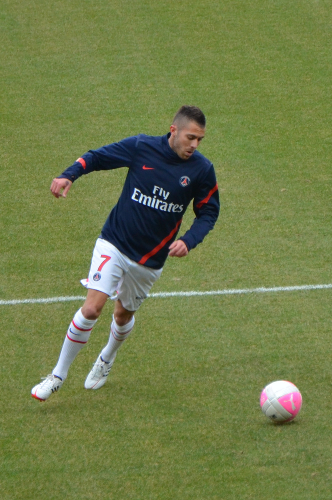 Football player Jeremy Menez warming up before the match Dijon FCO vs Paris SG, on March 11th, 2012 (Dijon, France).